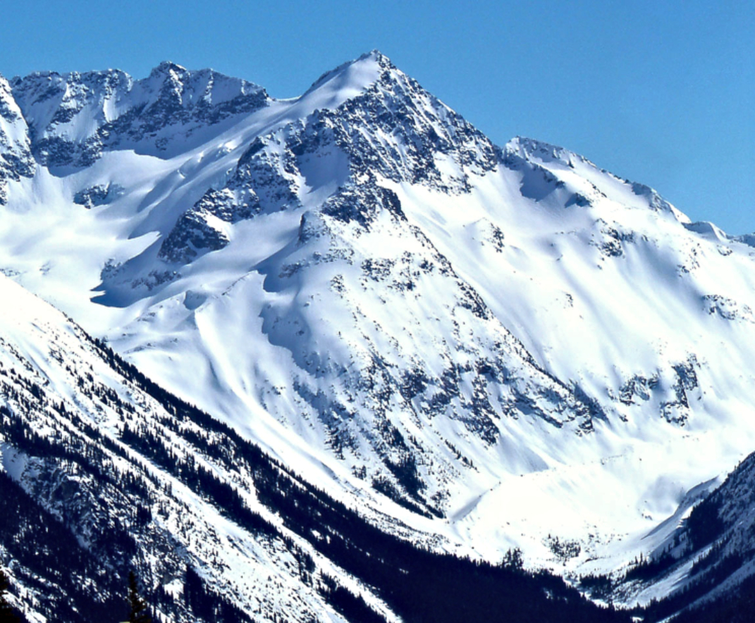 Mount Macbeth seen from Whistler Mountain "Panorama from the Roundhouse at Whistler, looking towards the Blackcomb side. Site of the 2010 Winter Olympics. "